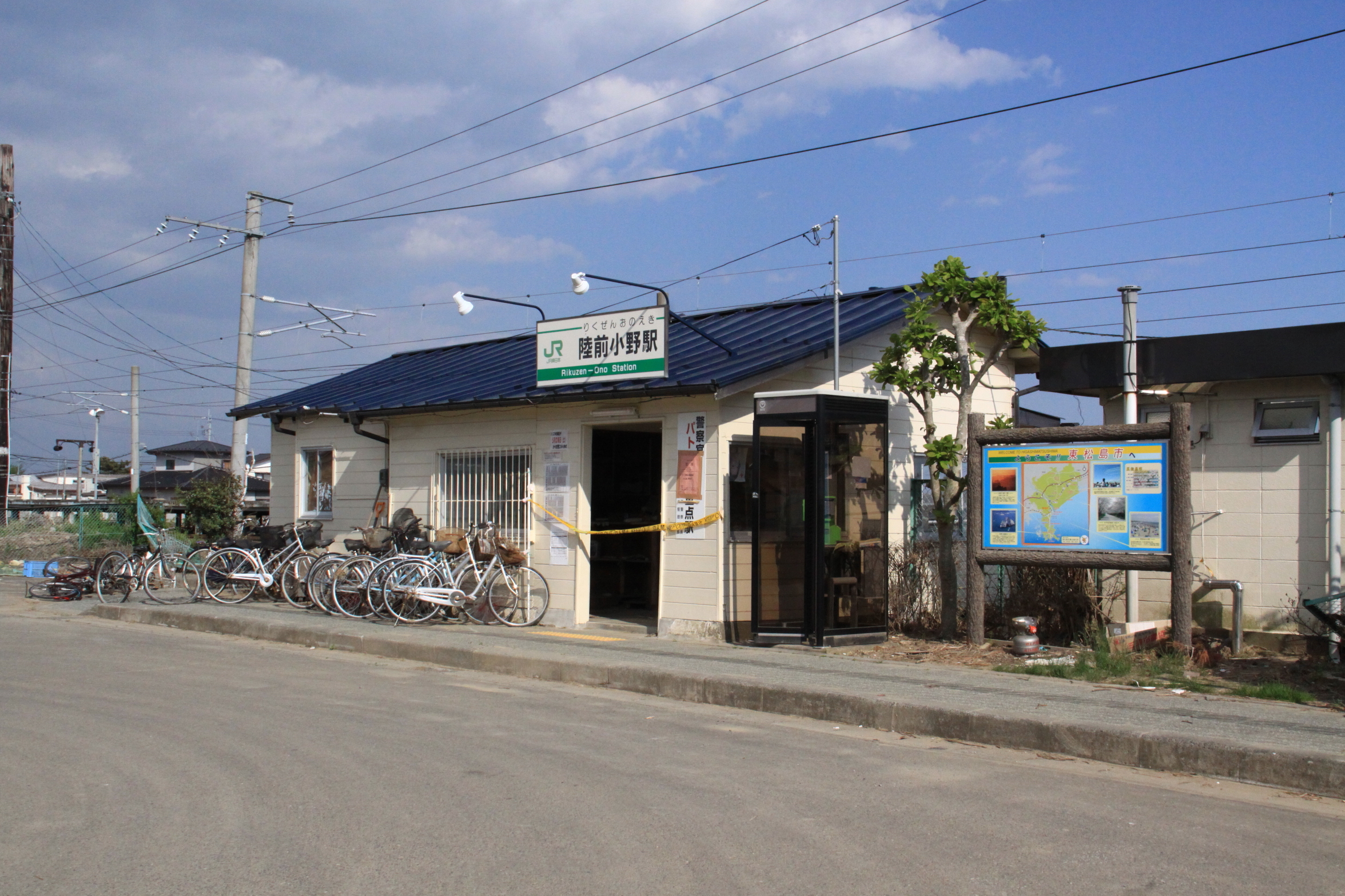 Rikuzen-Ono Station was attacked by Tsunami in Ishinomaki, Miyagi. It was judged with the station building of Ono Station being dangerous, and became keep off.